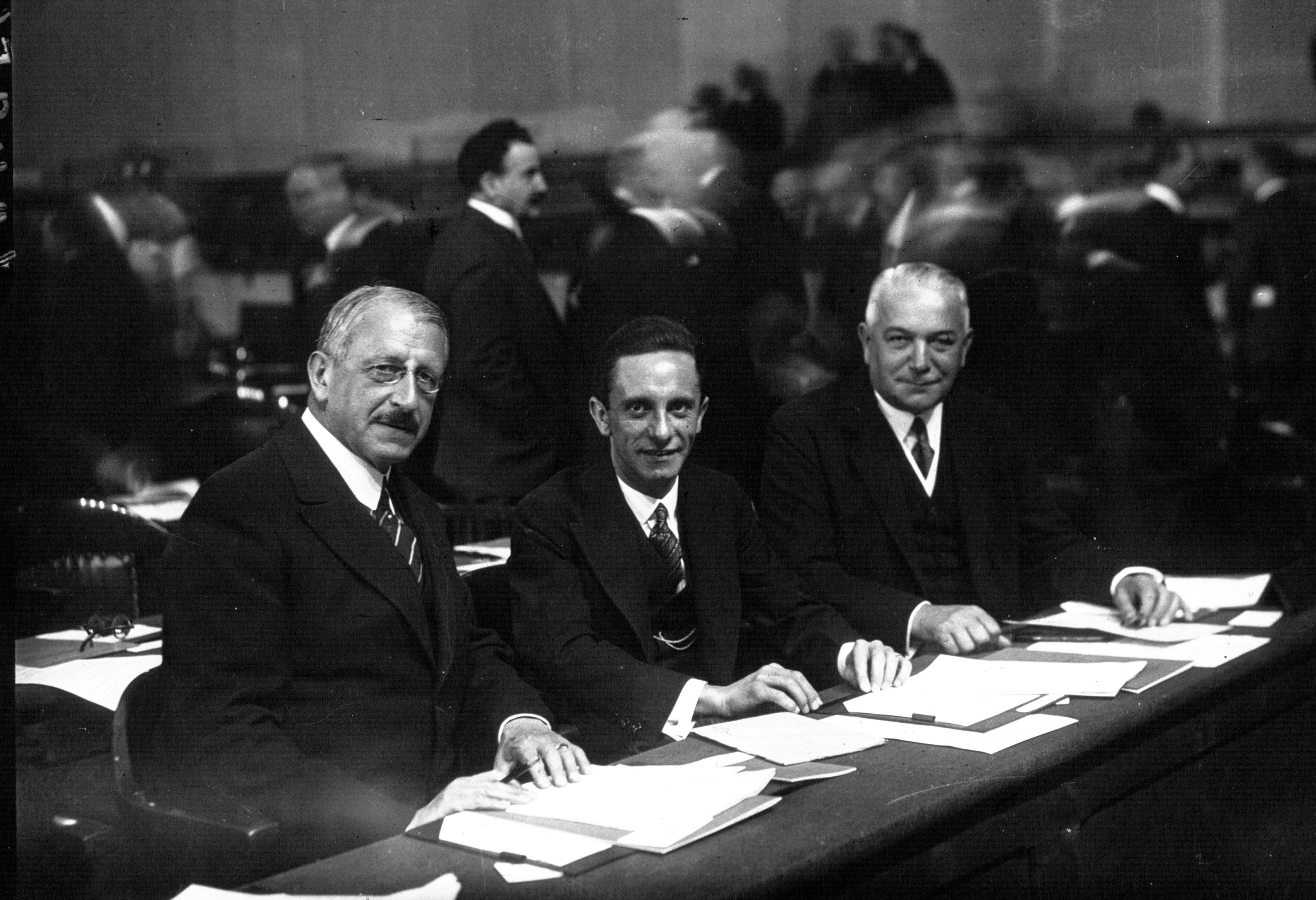 German delegation at the Geneva Disarmament Conference in 1933. From left to right: Friedrich von Keller, Joseph Goebbels, Konstantin von Neurath.